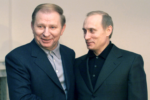 ALMATY. President Vladimir Putin with Ukrainian President Leonid Kuchma.